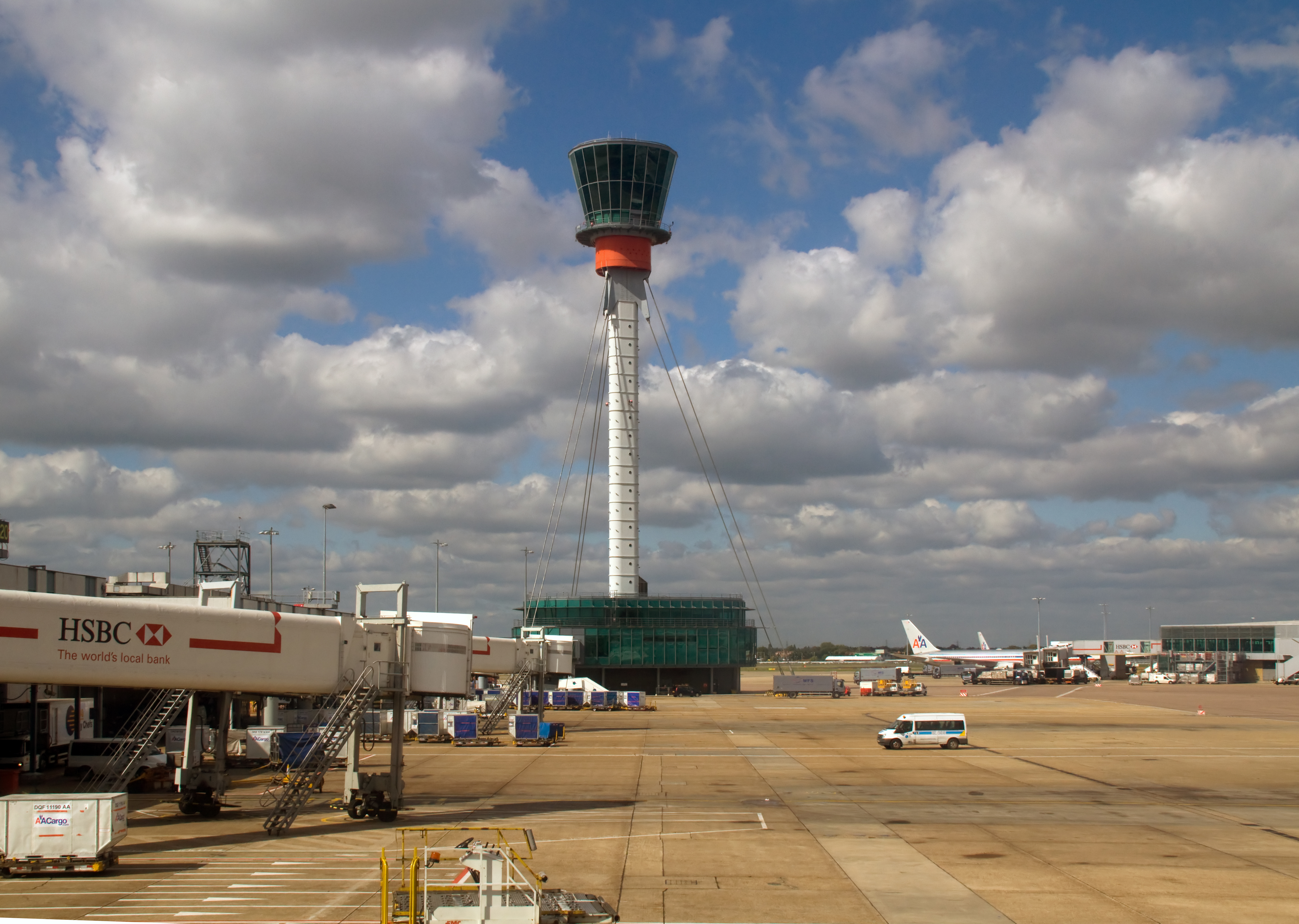 Heathrow Control Tower